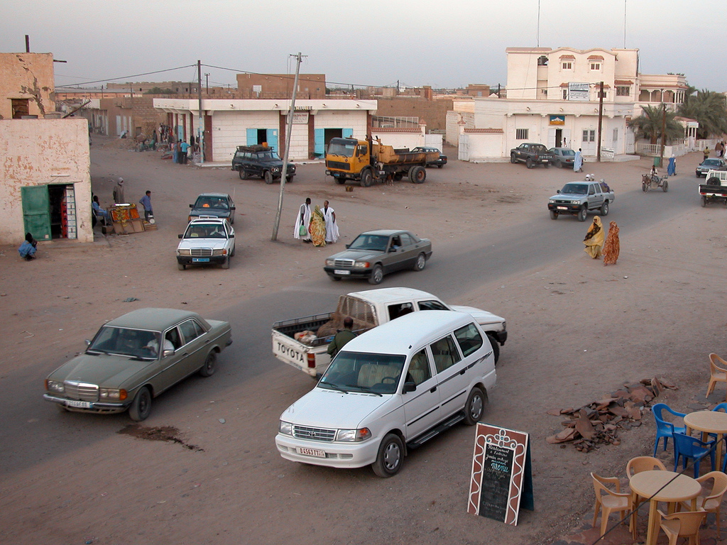 Atar, Mauritania - the center of the town